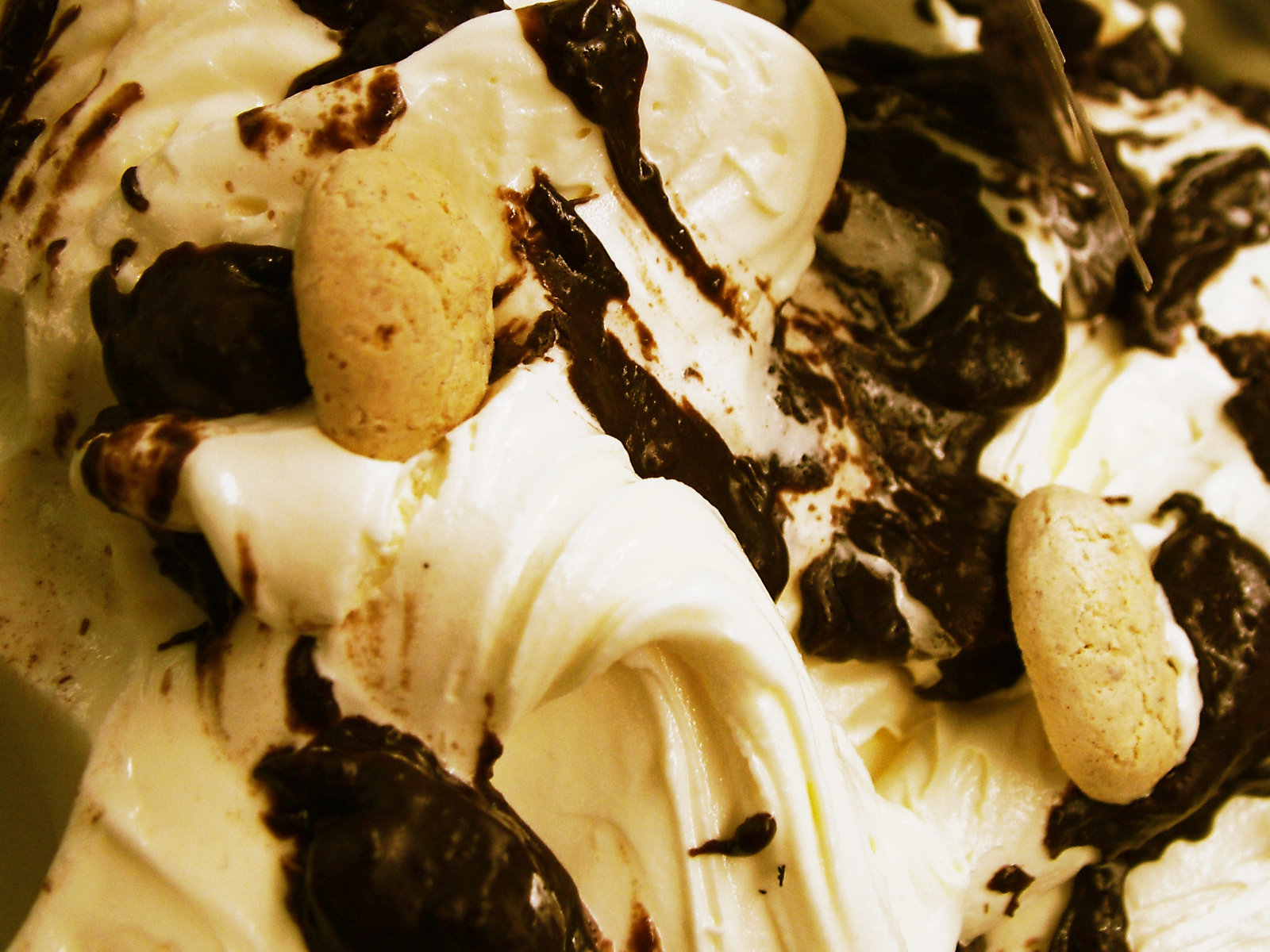 Chocolate Chip Ice Cream